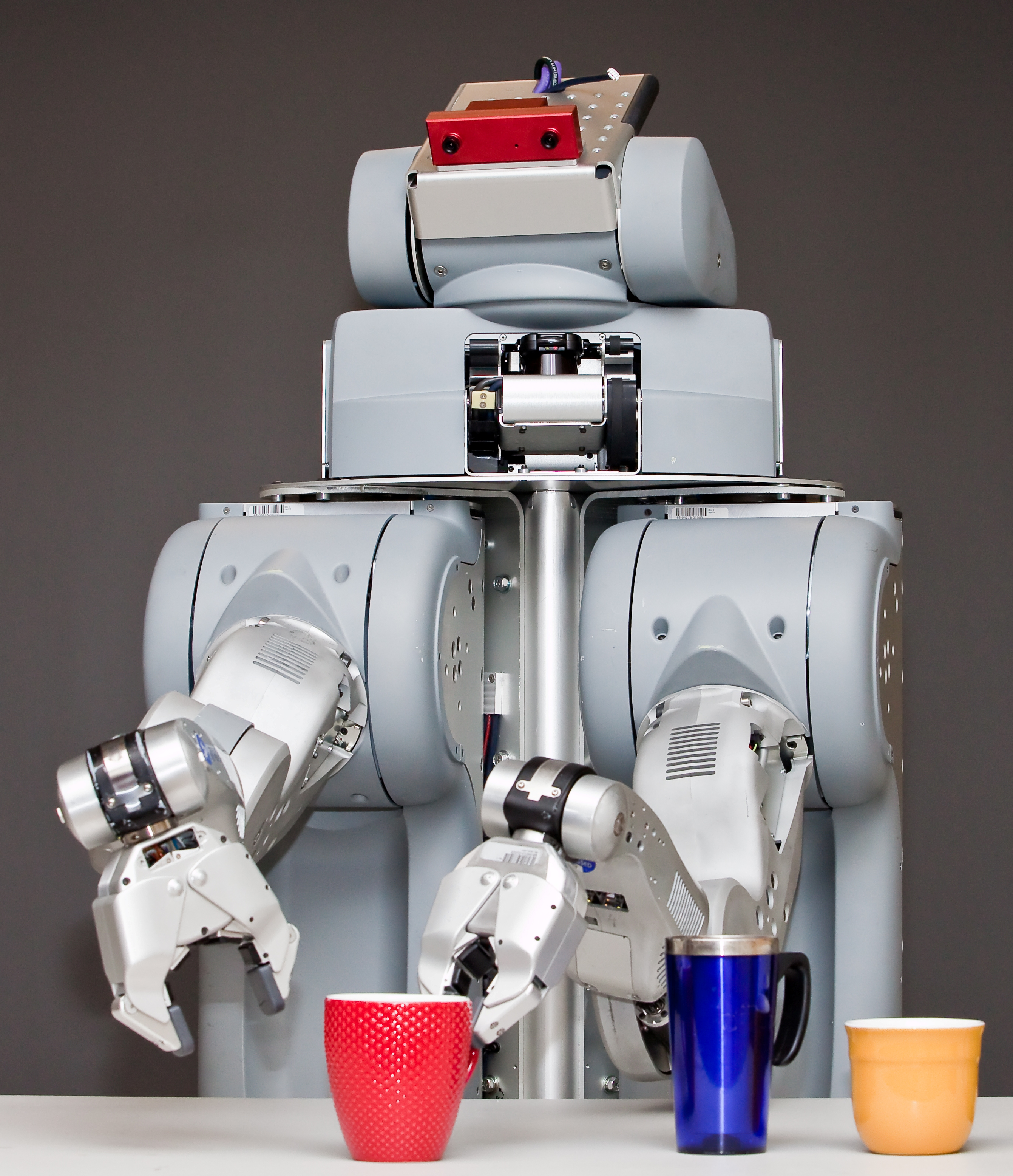 Illustration of the PR2 robot